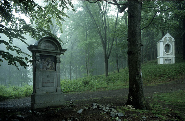 Bardzkie Mts. (Central Sudetes), Bardzka Góra.